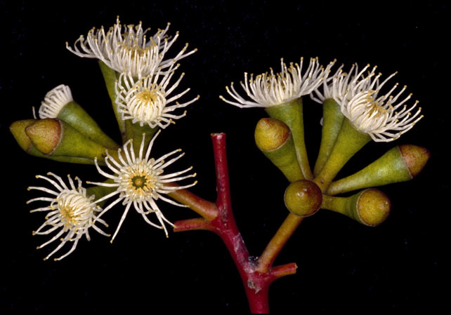 Flowers and buds of Eucalyptus articulata in the Great Victoria Desert, Western Australia